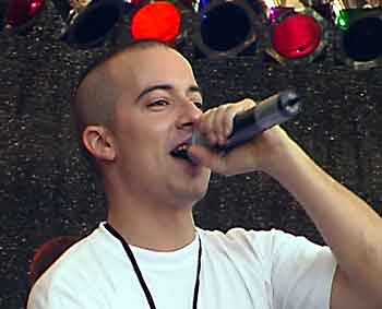 Too Strong